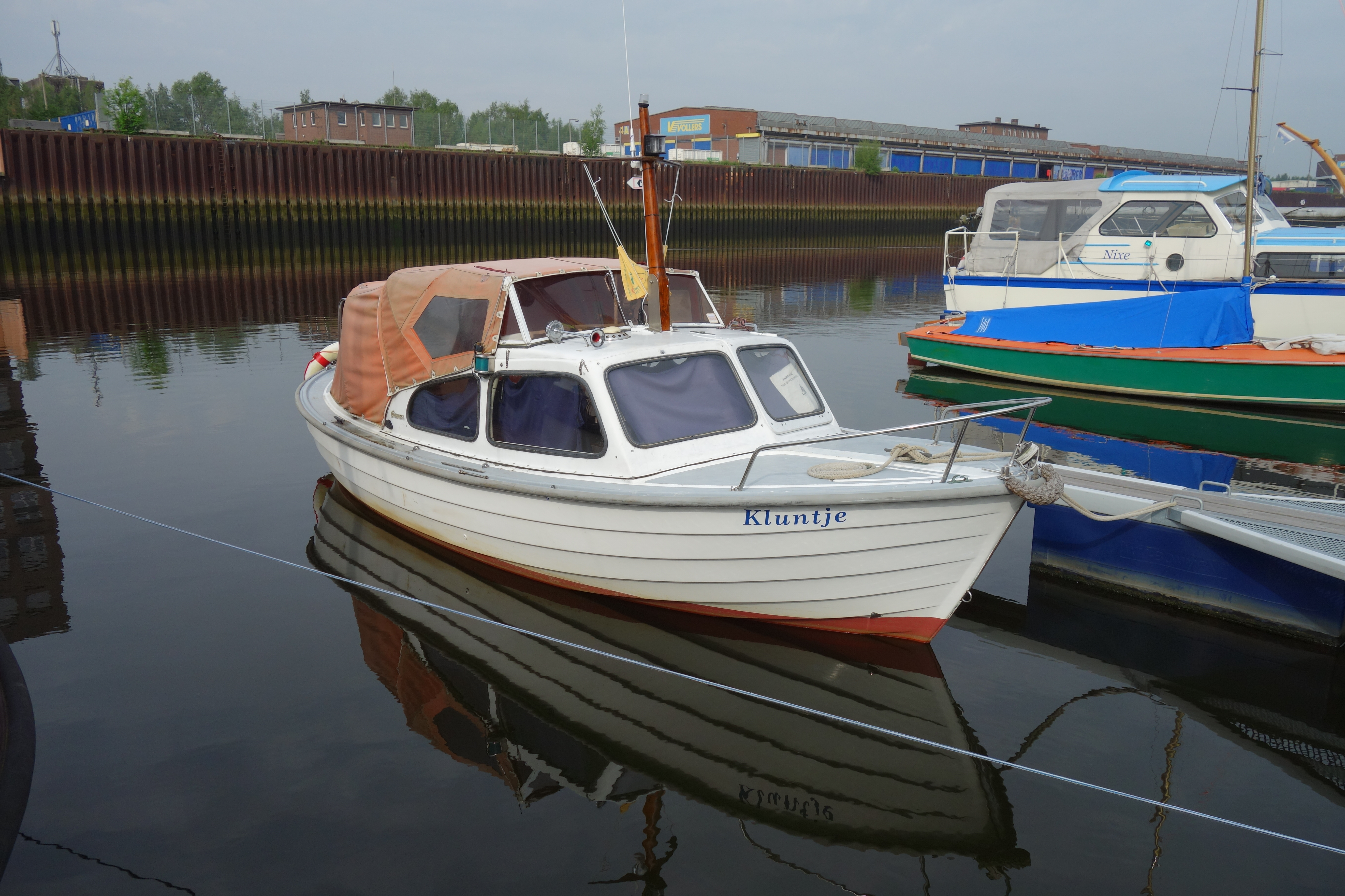 Kluntje, a Norwegian type Saga 20 motorboat, moored in Marina Europahafen, Bremen